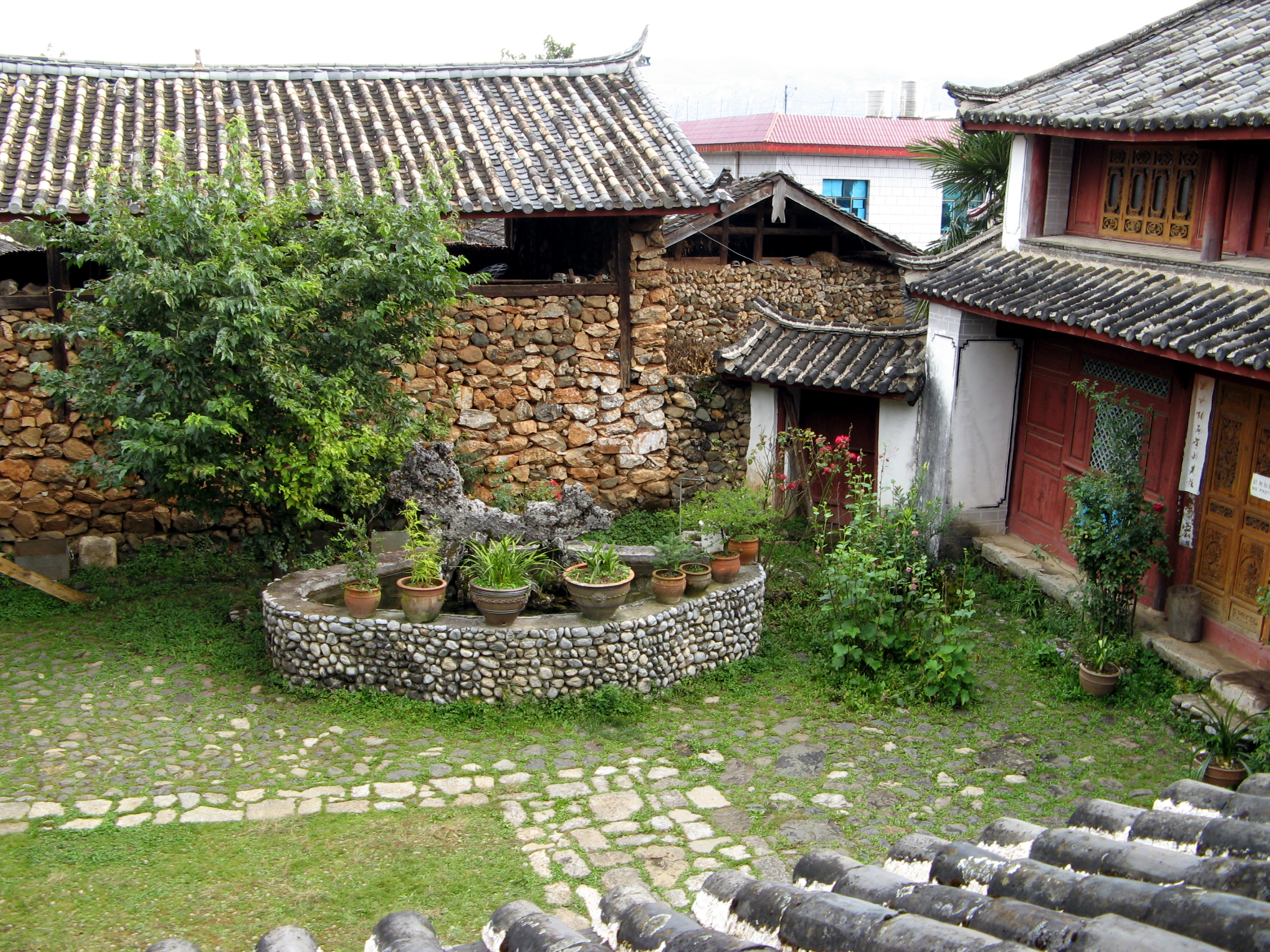 Courtyard of Joseph Rock's House. Yuhu Village near Lijiang, in Yunnan province. Joseph Rock was a true original: a wealthy Austrian botanist who lived near Lijiang from 1922-1949, gathering over 80,000 plant specimens and compiling the first dictionary of the Naxi language. His entourage numbered in the hundreds: cooks, mercenaries, and servants to carry his gramophone, gold dinner service, and bathtub. His modest rooms here have been turned into a local museum (photos not permitted), that emphasizes the hardships of his life, perhaps as a concession to the Cultural Revolution, but neglects to mention his golden forks and spoons. Dr. Rock is celebrated as the first Westerner, however eccentric, who cared about Naxi culture and introduced it to the European world.